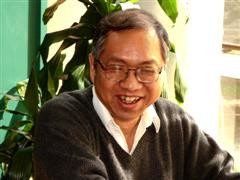 Shing-Tung Yau at Harvard University (Harvard Law School's dining hall)